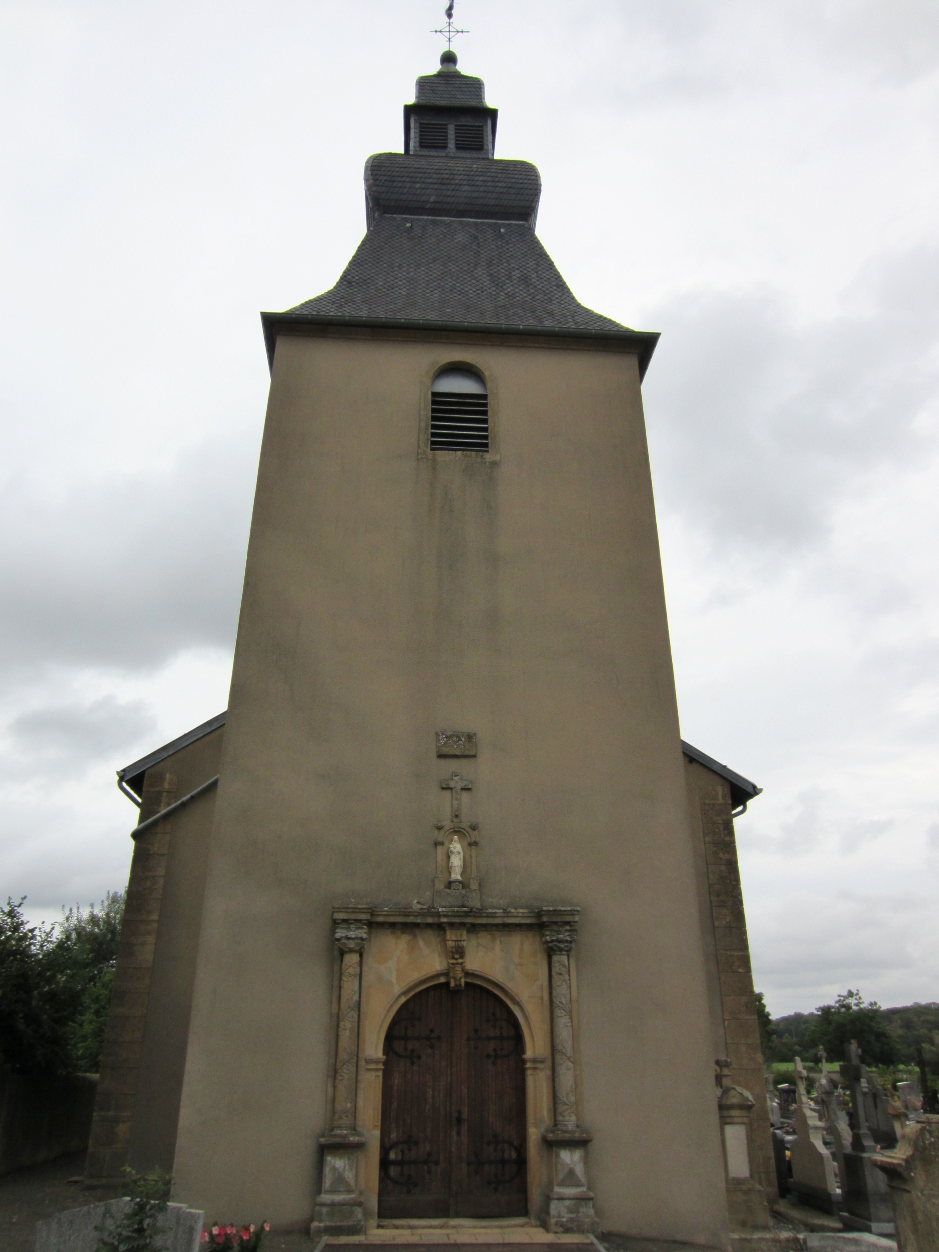 Description eglise Bertrange Date8 September 2011Sourcemon appareil photoAuthorAimelaimePermission(Reusing this file) eglise Bertrange